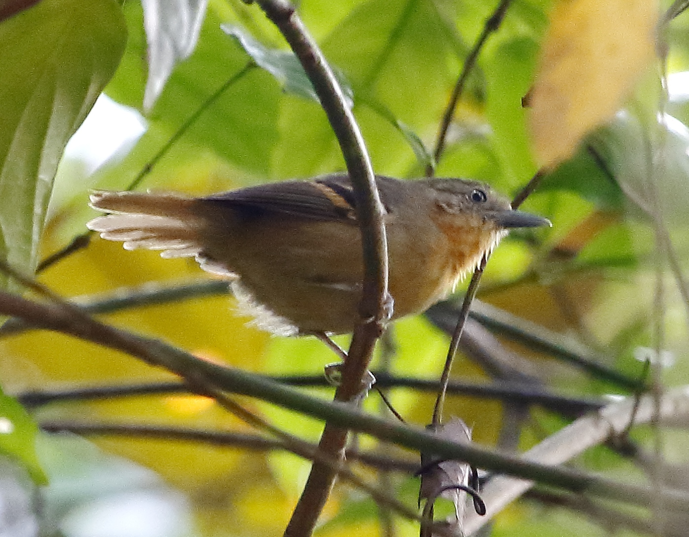 White-eyed antwren (female) at Carajás National Forest - Pará - Brazil